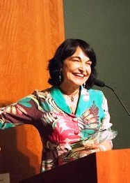 Speaking at Leavey Lecture, 2015